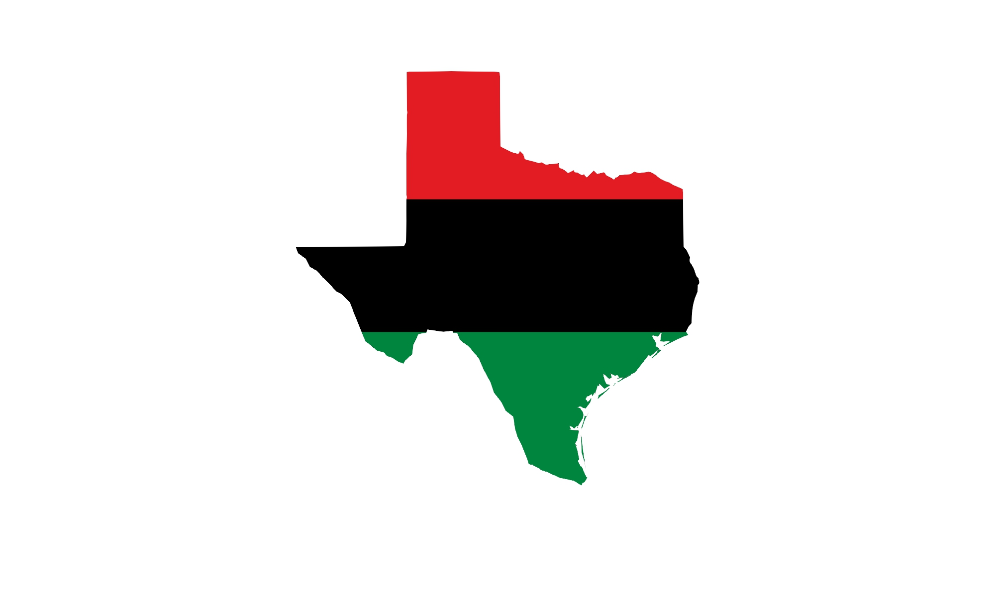 Texas Black Power Flag